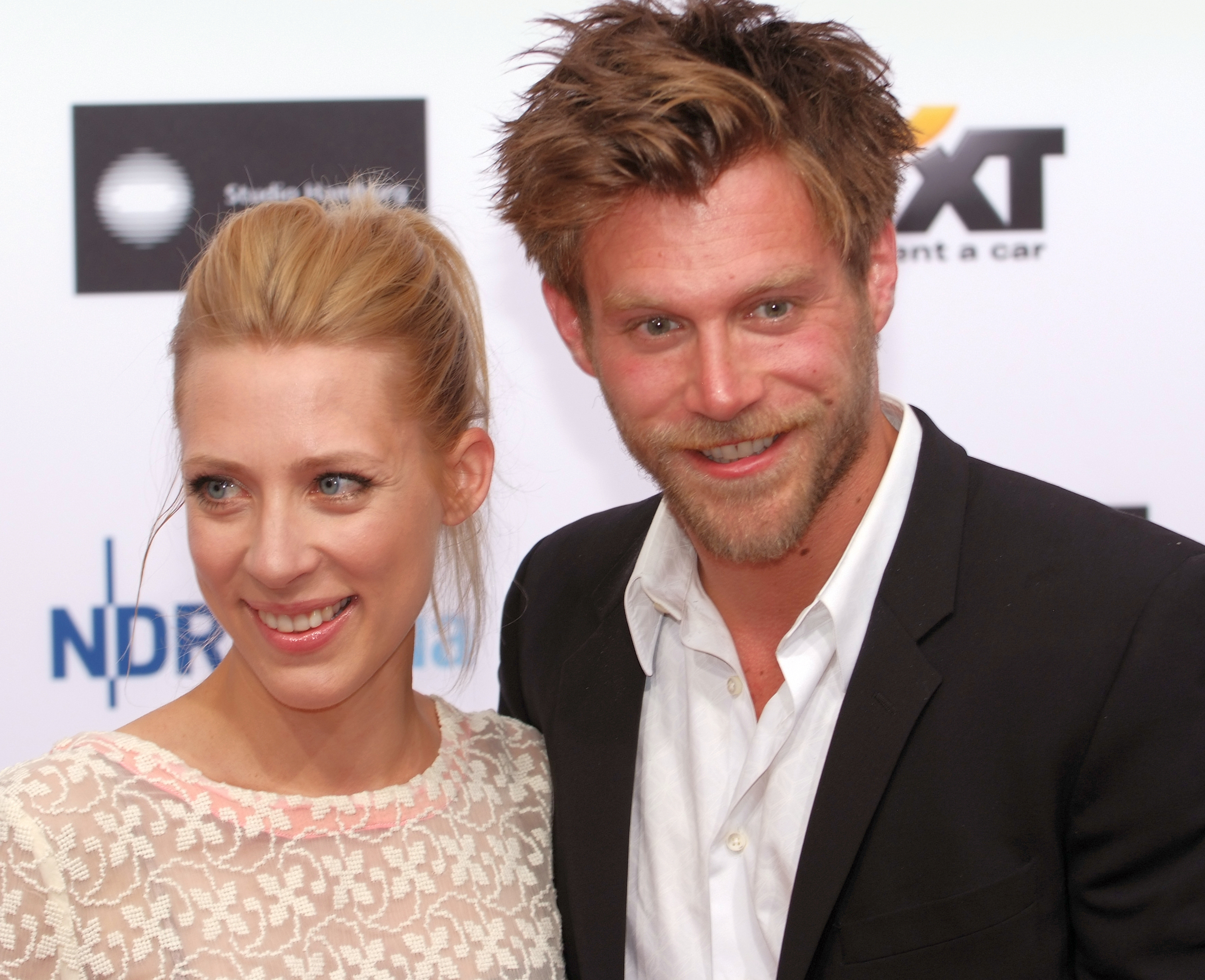 Married couple Marisa Leonie Bach und Ken Duken at Studio Hamburg Nachwuchspreis 2012